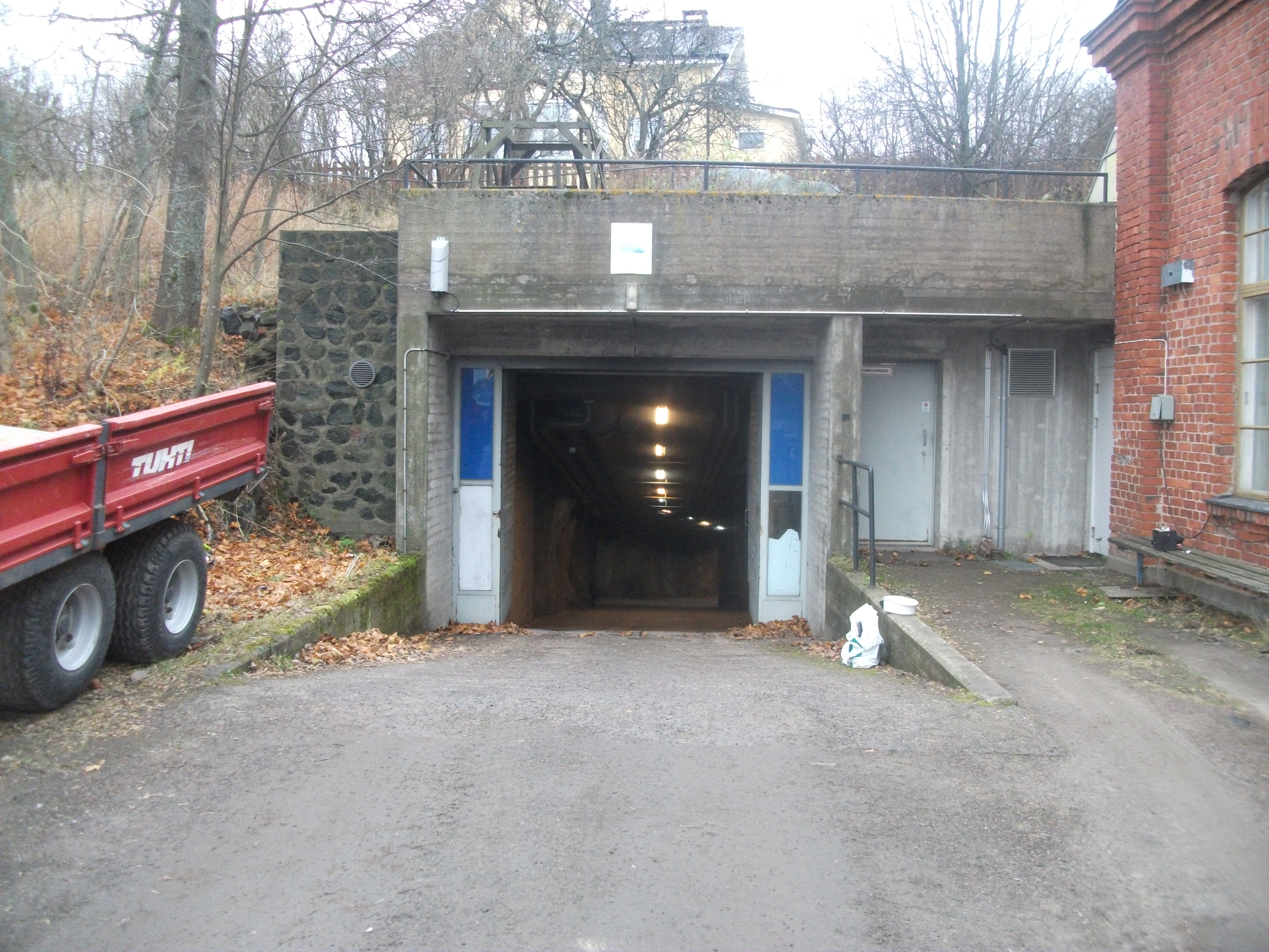 Suomenlinna, enter to the tunnel from island side